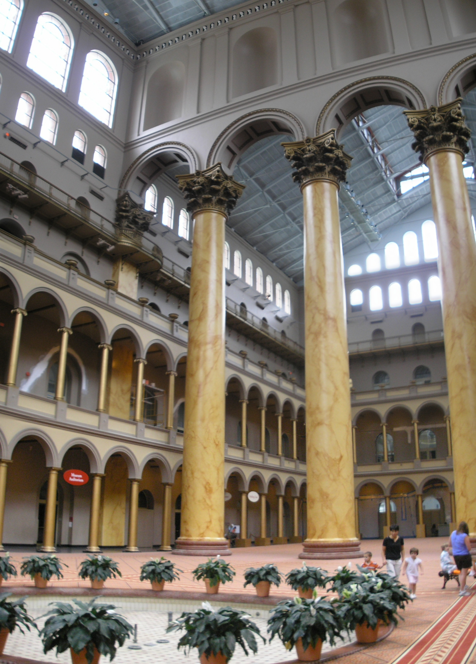 The interior of the National Building Museum in Washington, D.C..